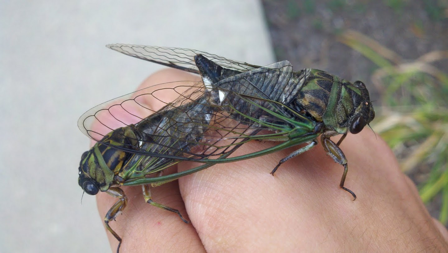 Two Neotibicen canicularis (Dogday harvestfly) mating.